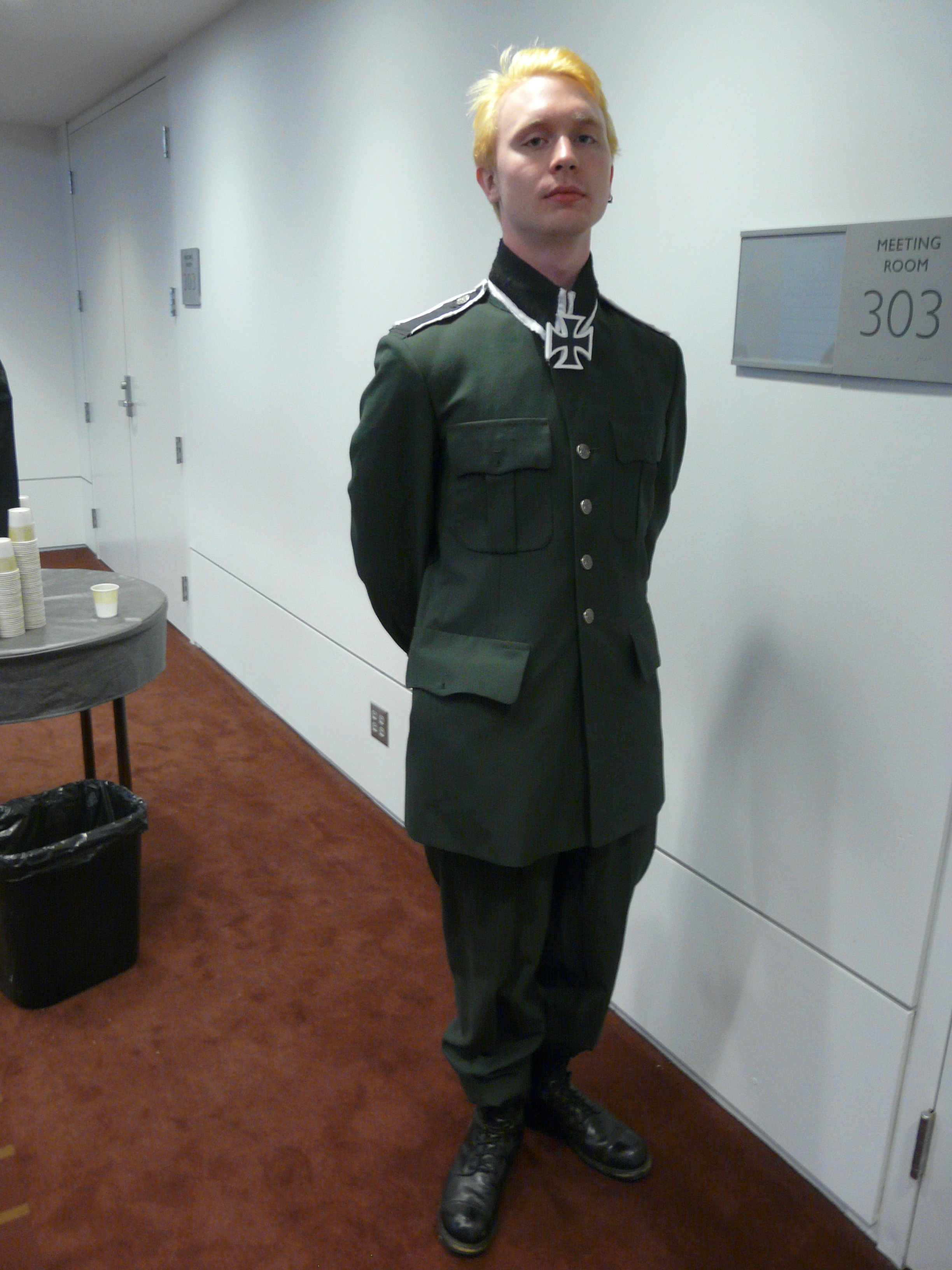 Tekkoshocon at David L. Lawrence Convention Center (2010) (Hetalia; Ludwig Beilschmidt Germany)